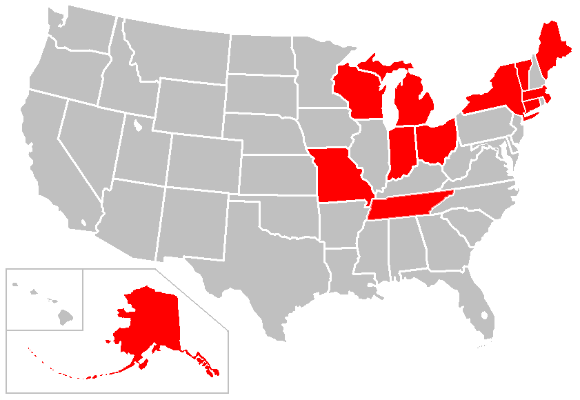 Updated map to include Tennessee.